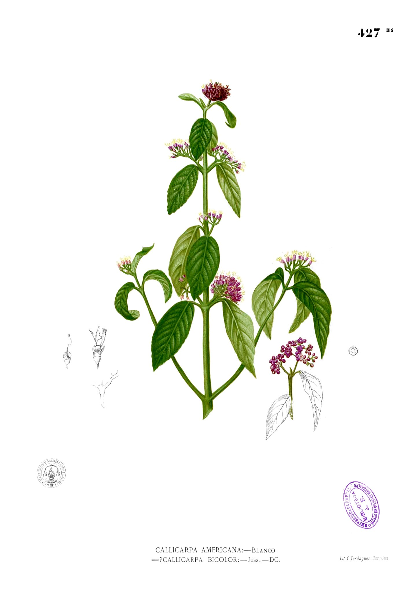 Plate from book